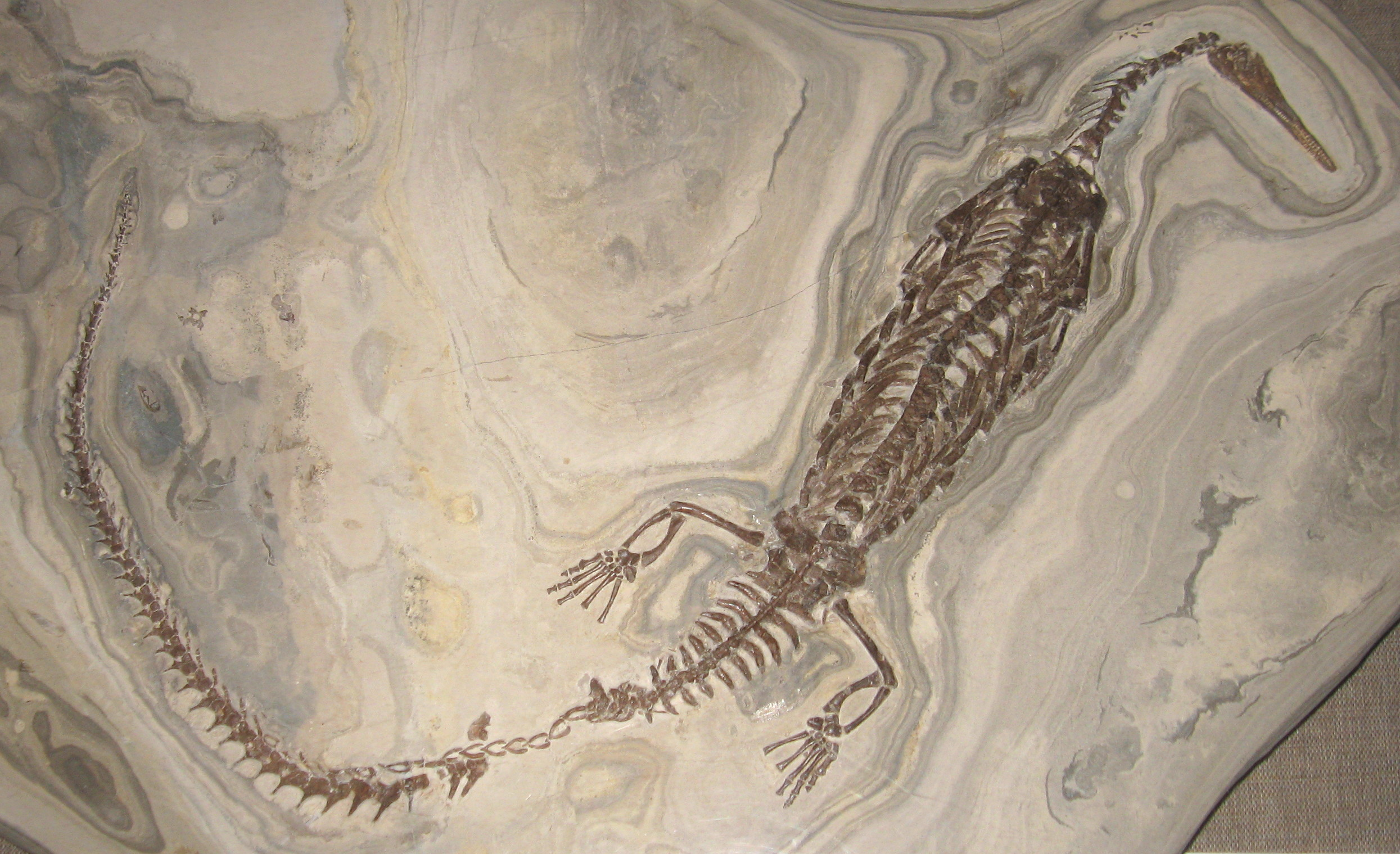 A fossil Mesosaurus tenuidens (syn.Mesosaurus brasiliensis), Permian (270 myo), Parana basin, Brazil. Photographed at Dinoday 2009.